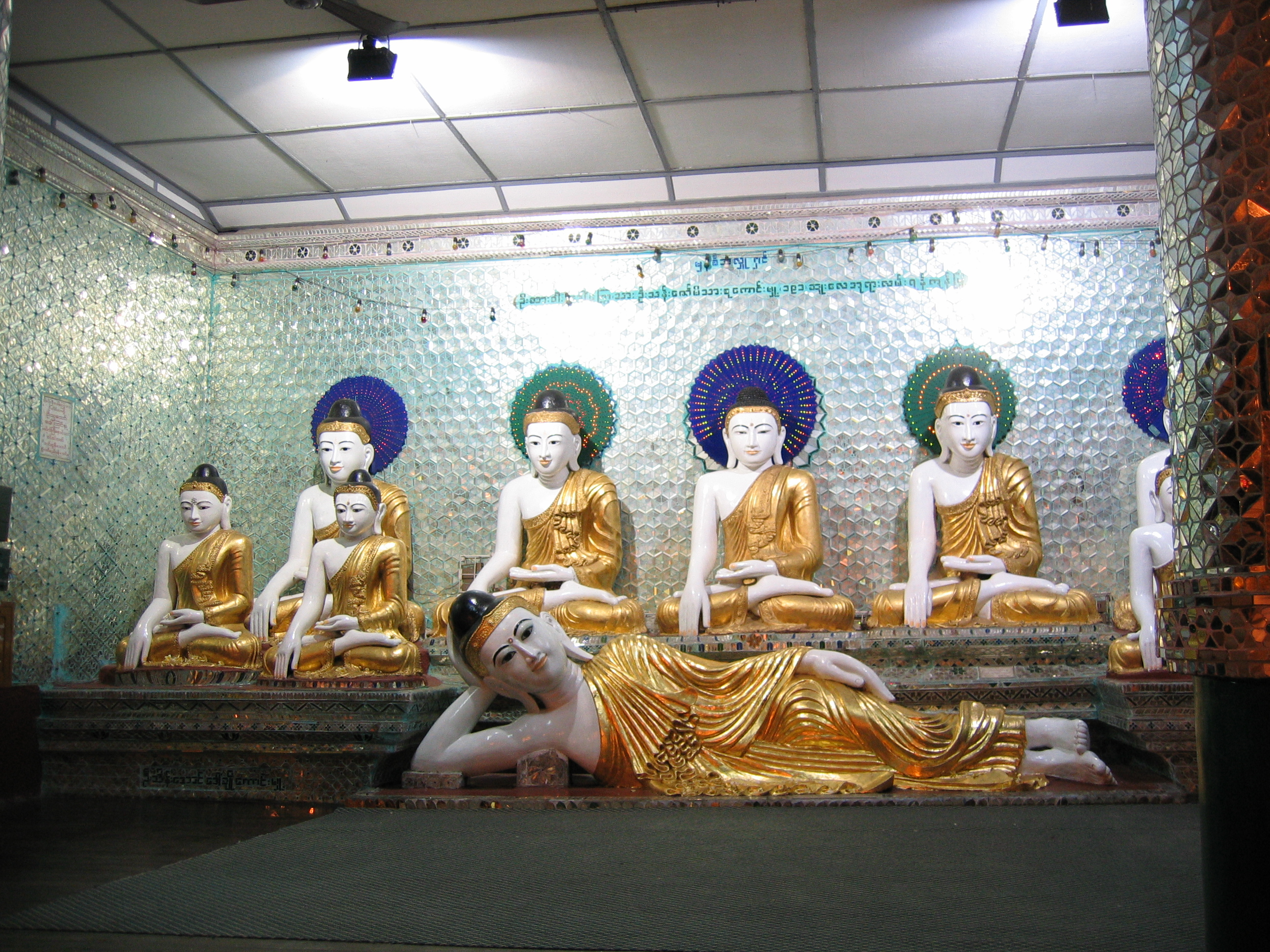 Buddha Statues, Shwedagon Pagoda, Yangon, Myanmar